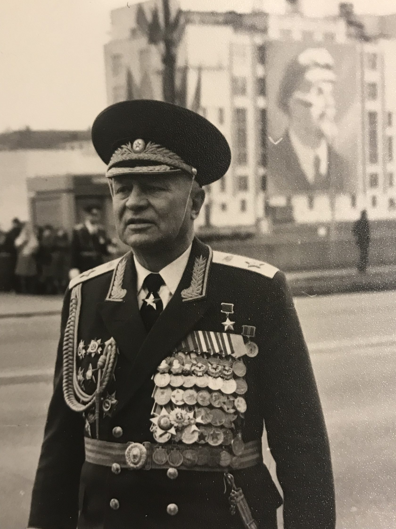 У Дома офицеров в Центре Минска. Май 1985 года.